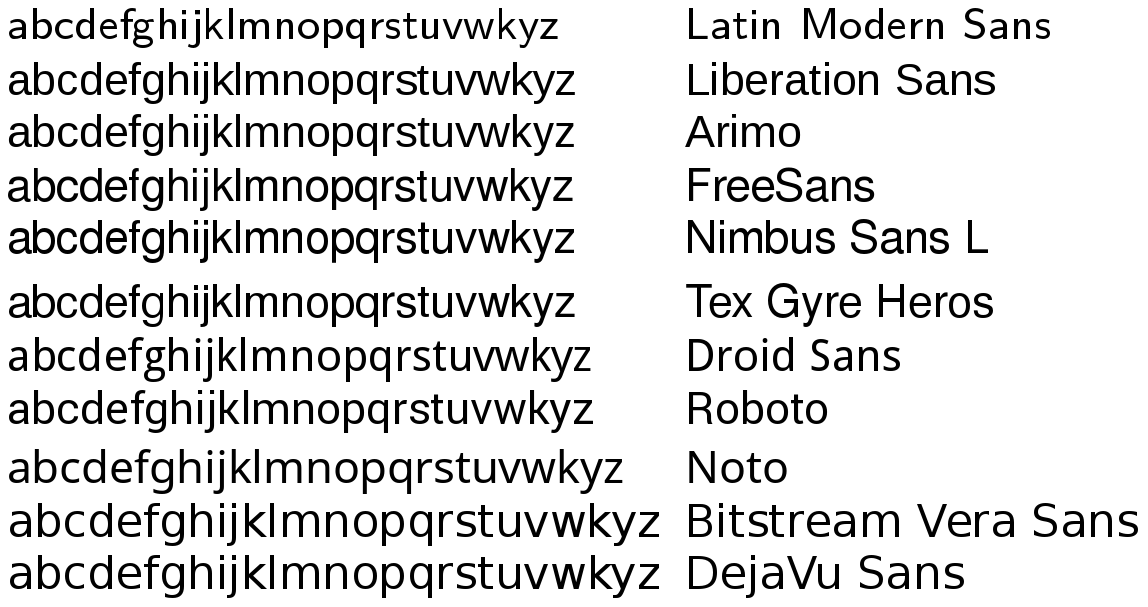 Screenshot of type set in several different free (libre) sans-serif typefaces: Latin Modern Sans, Liberation Sans, Arimo, FreeSans, Nimbus Sans L, Tex Gyre Heros, Droid Sans, Roboto, Noto, Bitstream Vera Sans, and DejaVu Sans.